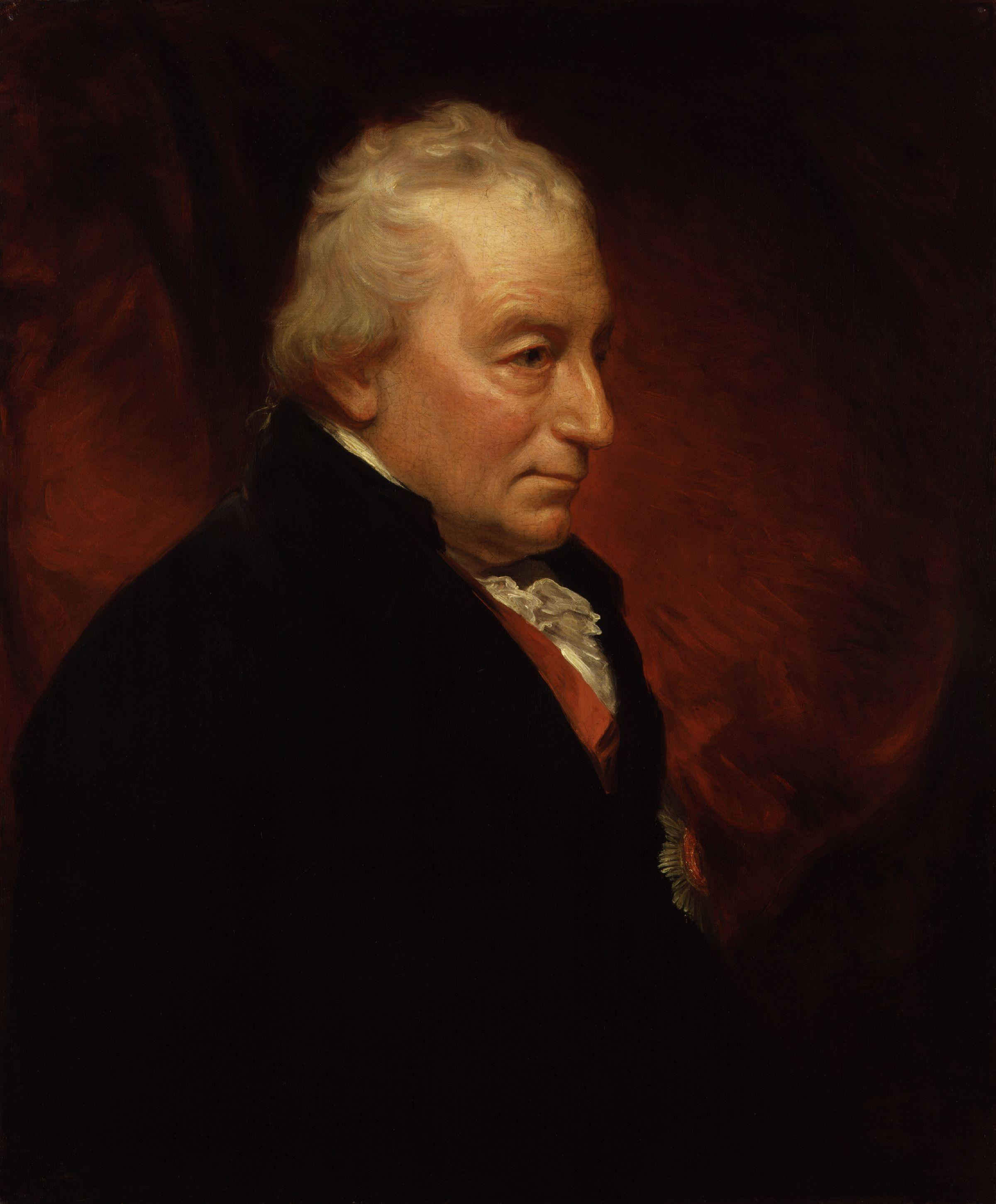 John Jervis, Earl of St Vincent, by Sir William Beechey (died 1839). All images in this batch have been confirmed as author died before 1939 according to the official death date listed by the NPG.